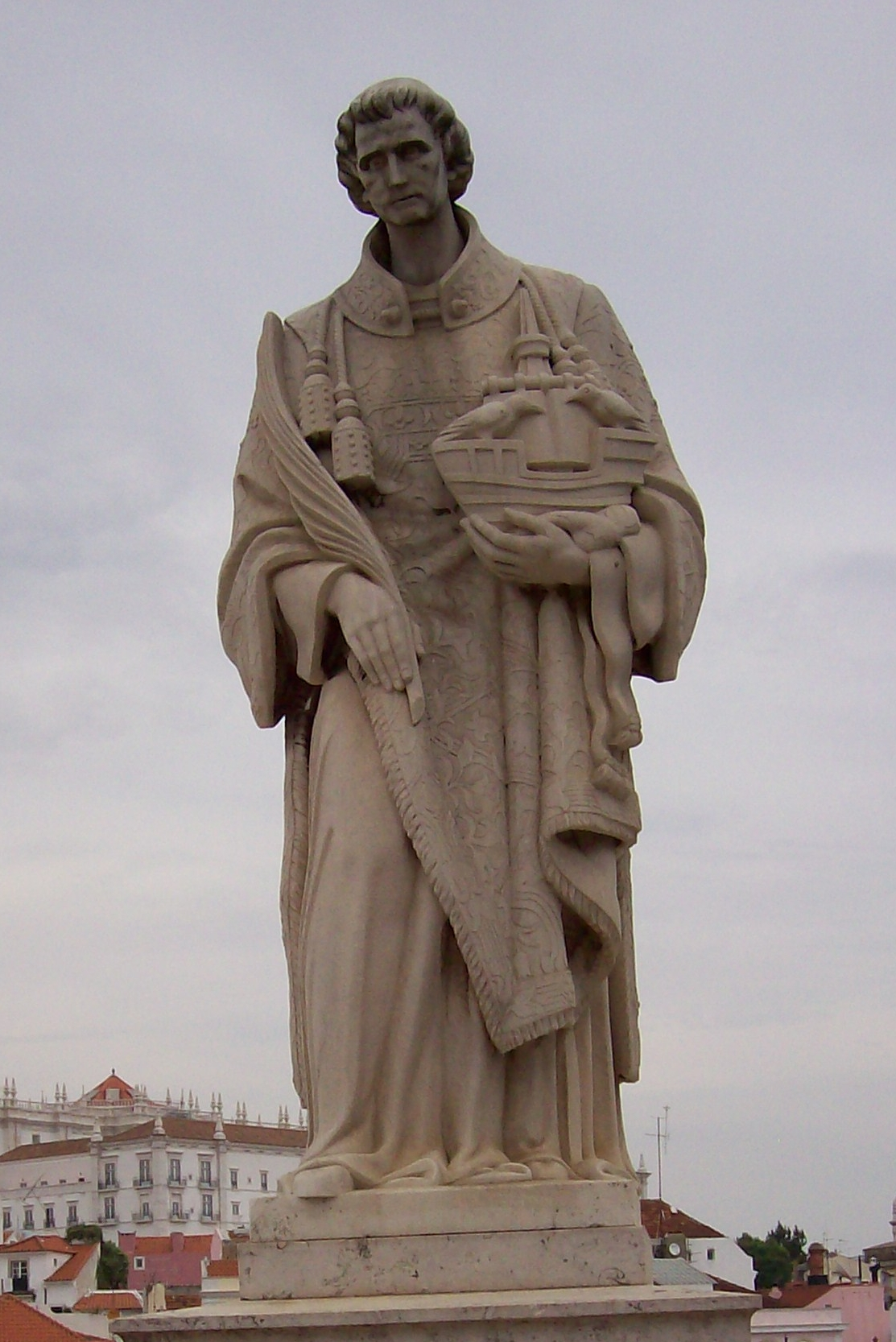 Statue S.Vicente in Lissabon (Portugal)